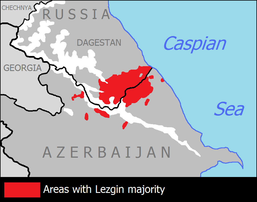 Map showing the distribution of Lezgin people in Dagestan (Russia) and Azerbaijan in 2003. Ethnic map of Caucasus region from A. Tsutsayev's Atlas of Ethnopolitical Hisotry of the Caucasus, Moscow, 2007 (АТЛАС ЭТНОПОЛИТИЧЕСКОЙ ИСТОРИИ КАВКАЗА, Цуциев А.А, Москва: Издательство «Европа», 2007)